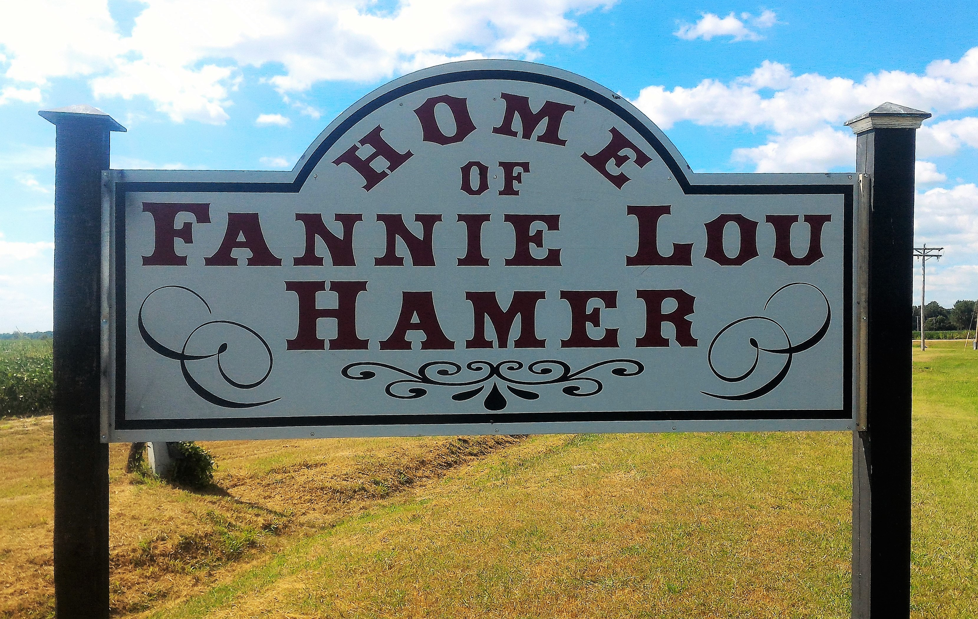 Sign located on Highway 49W